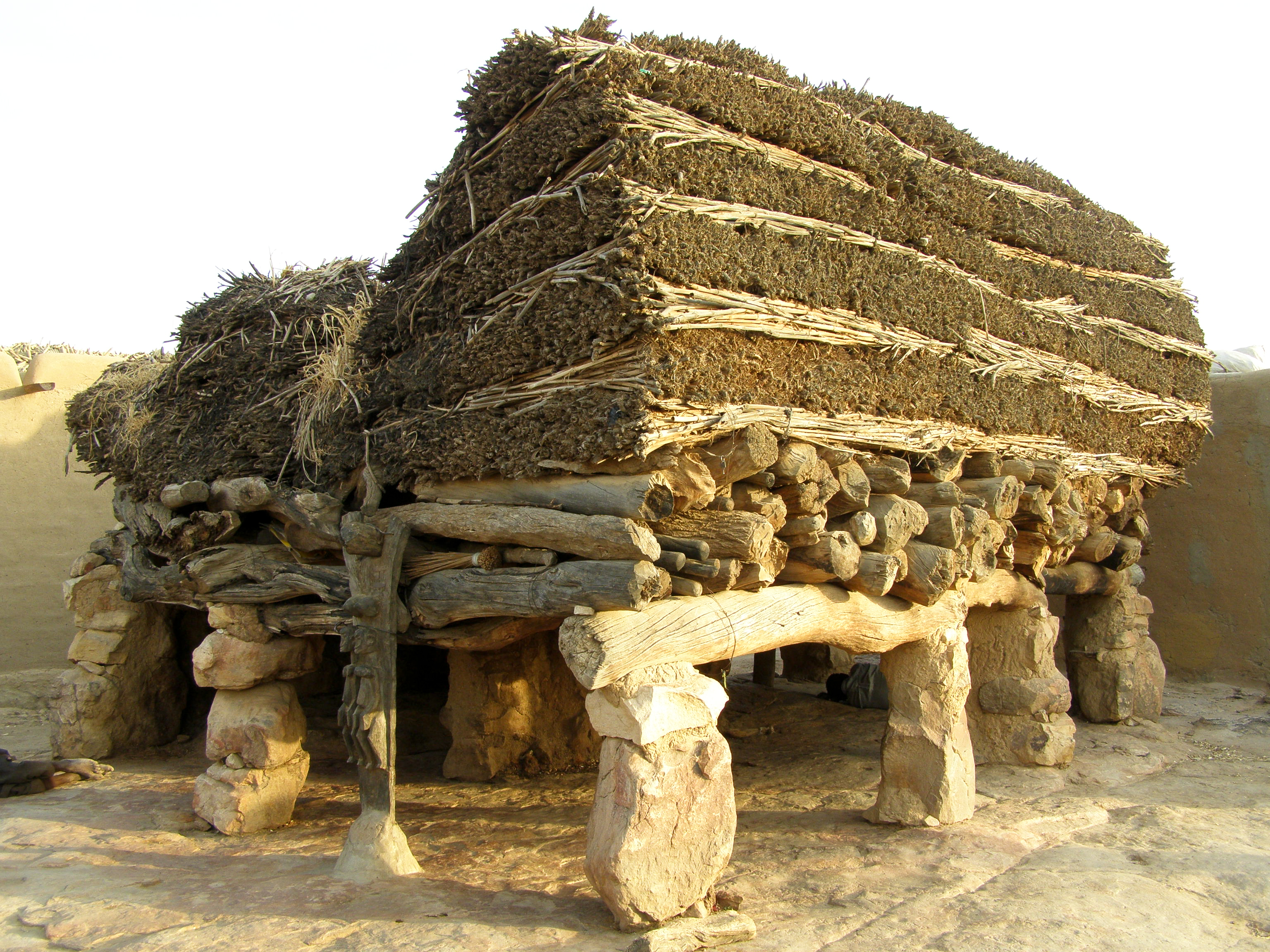 Toguna in Sangha, Mali.